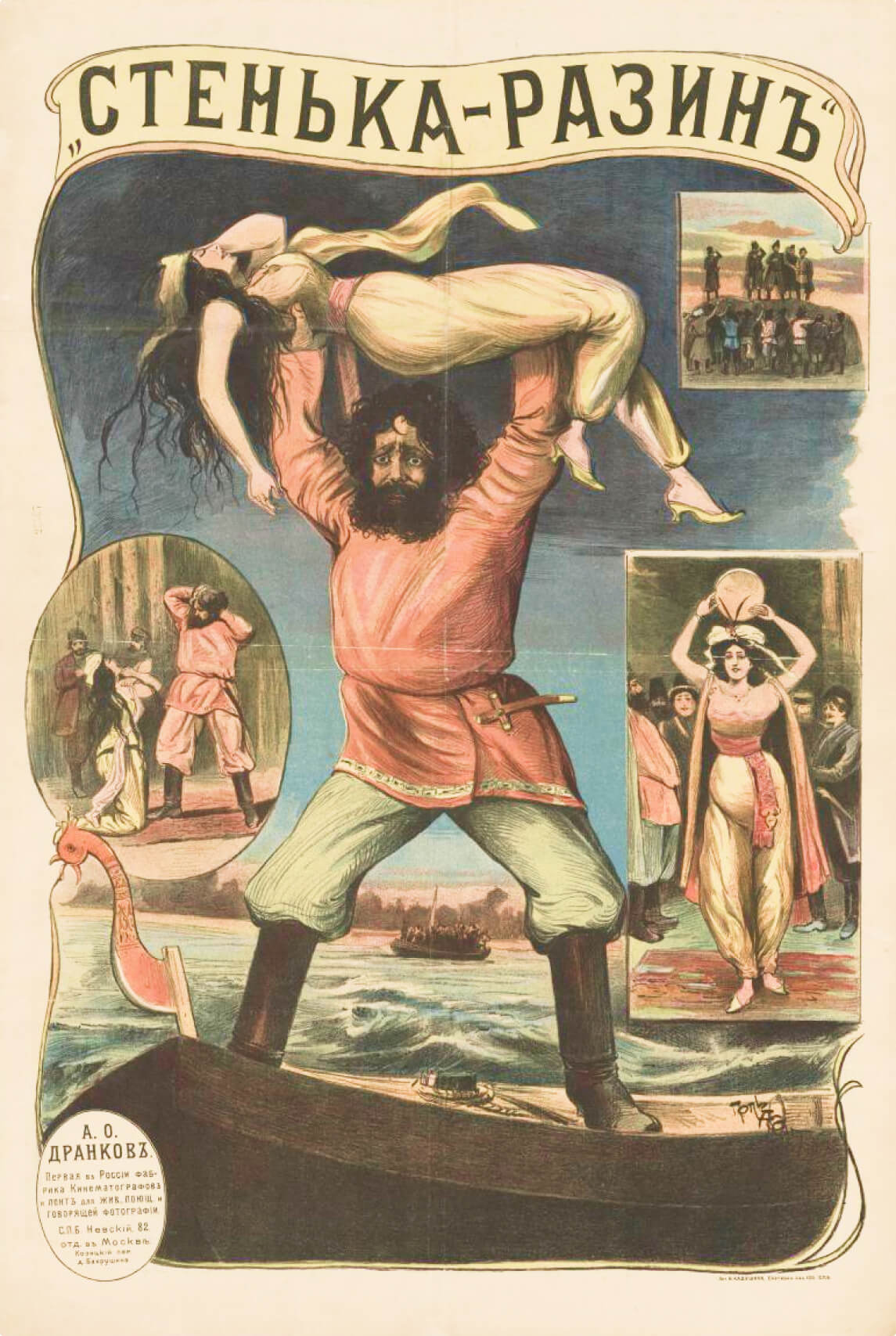 Movie poster of the first Russian film Stenka Razin by Vladimir Romashkov